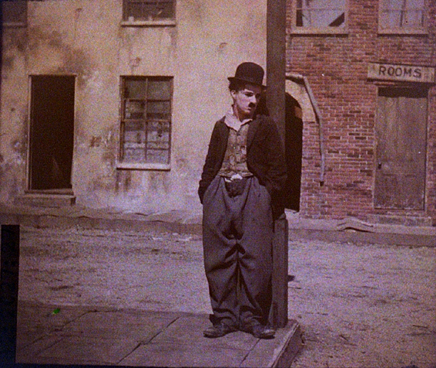 Portrait of Charlie Chaplin